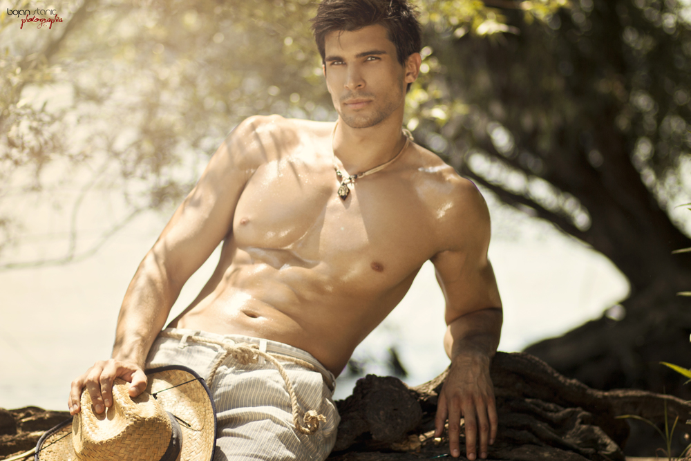 Milos Micovic Serbian top model and singer.